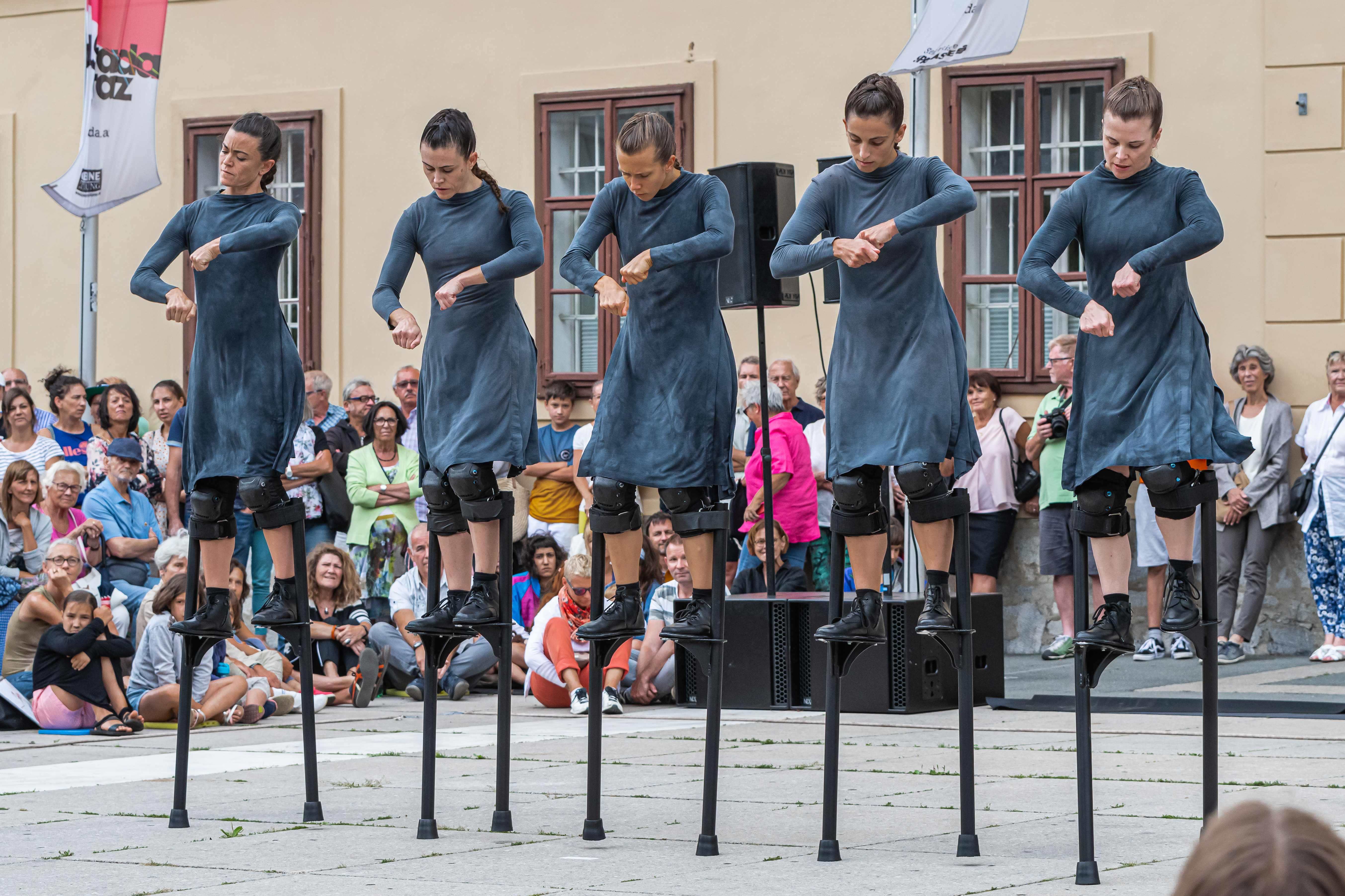 La Strada 2019 Graz, street theater on stilts, show "Mulïer" - tribute to all women by Compañía Maduixa, actresses Paula Quiles, Laia Sorribes, Lara Llavata, Ana Lola Cosín, Melissa Usina (left to right)